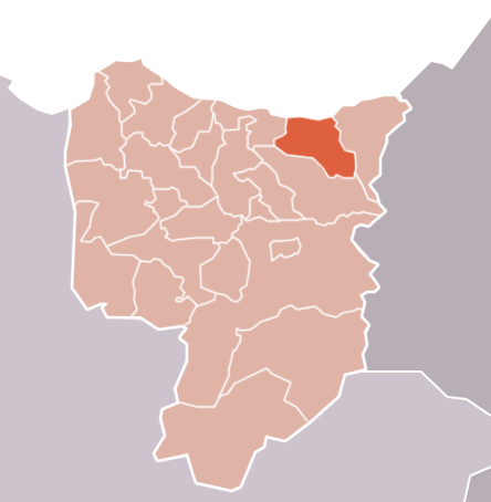 Dar el kebdani